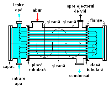 This is a schematic diagram of a surface condenser used for condensing the exhaust steam from a steam turbine.